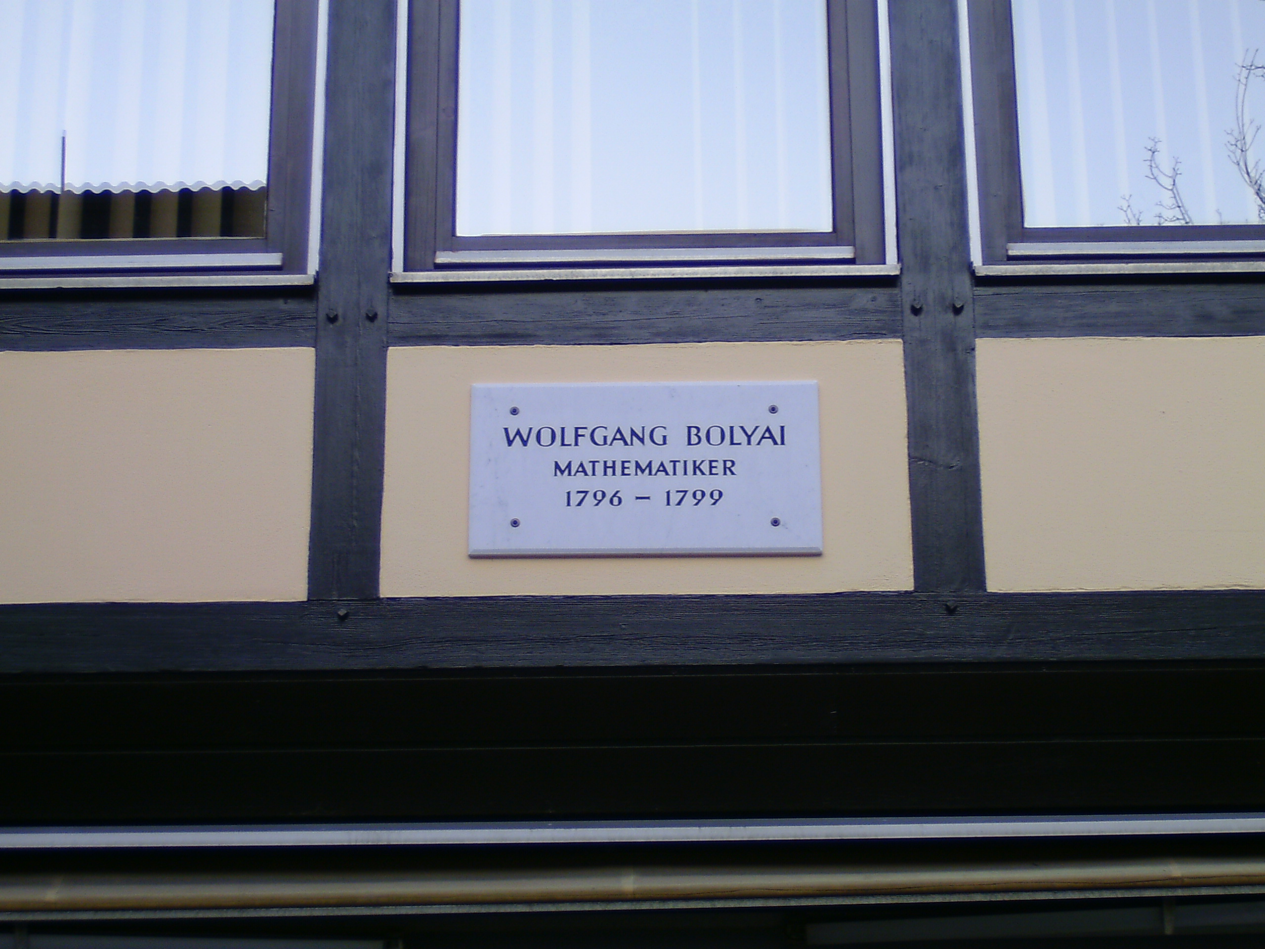 Commemorative Placard, Farkas (Wolfgang) Bolyai - Göttingen, Kurze straße